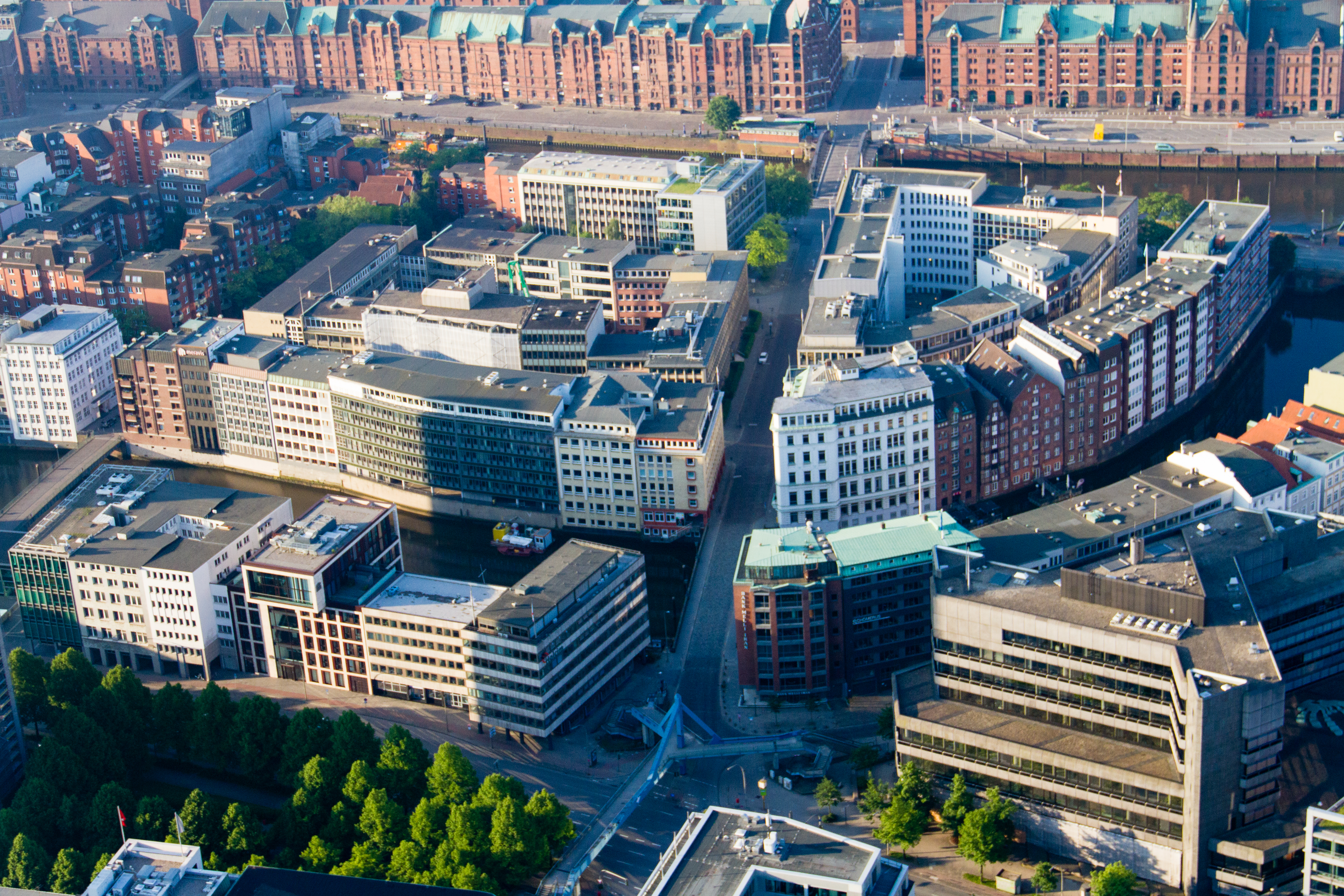 Wooden bridge Mattentwiete in Hamburg-Mitte